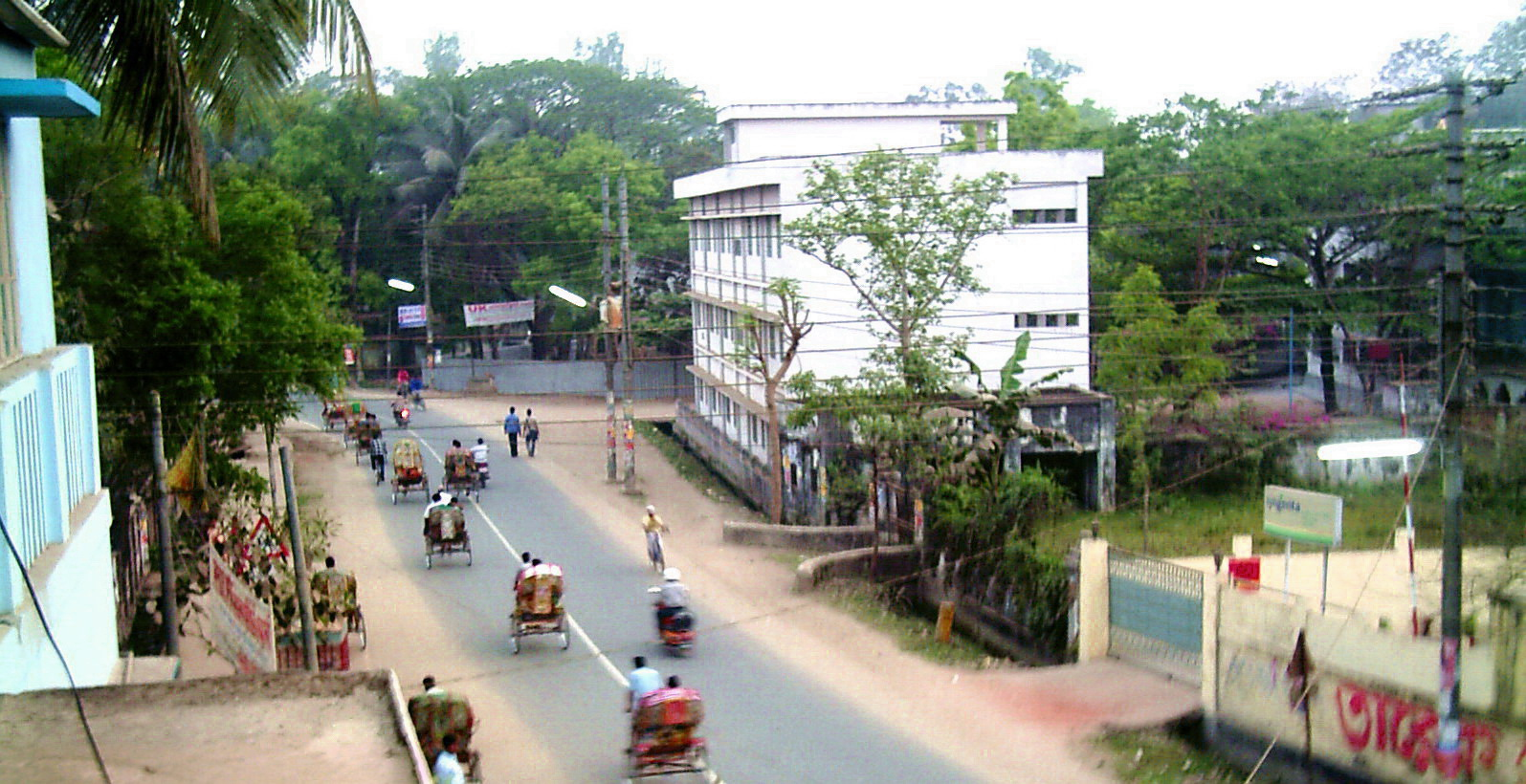 Court Road, Comilla.